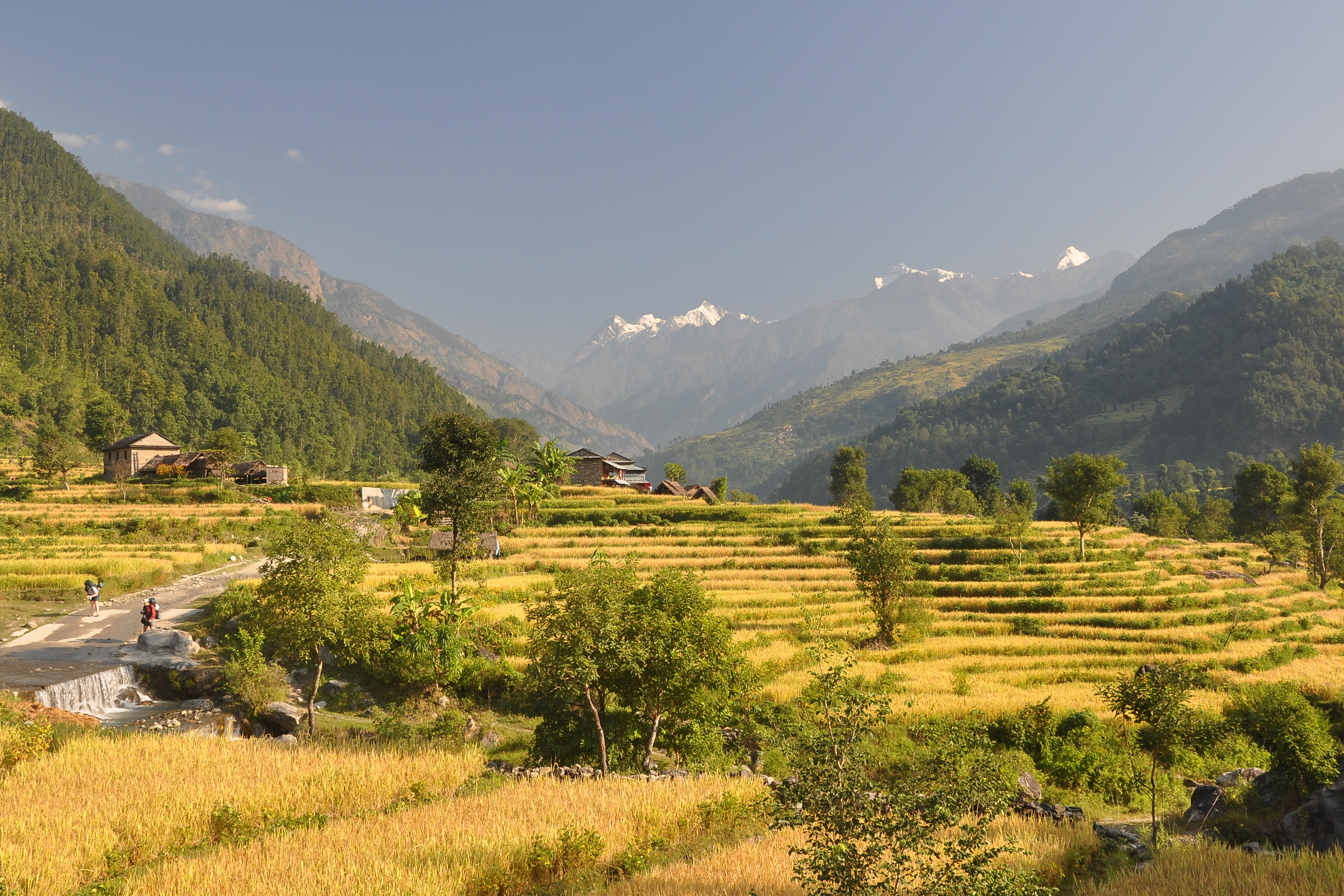 Manaslu Trek circuit, northern nepal